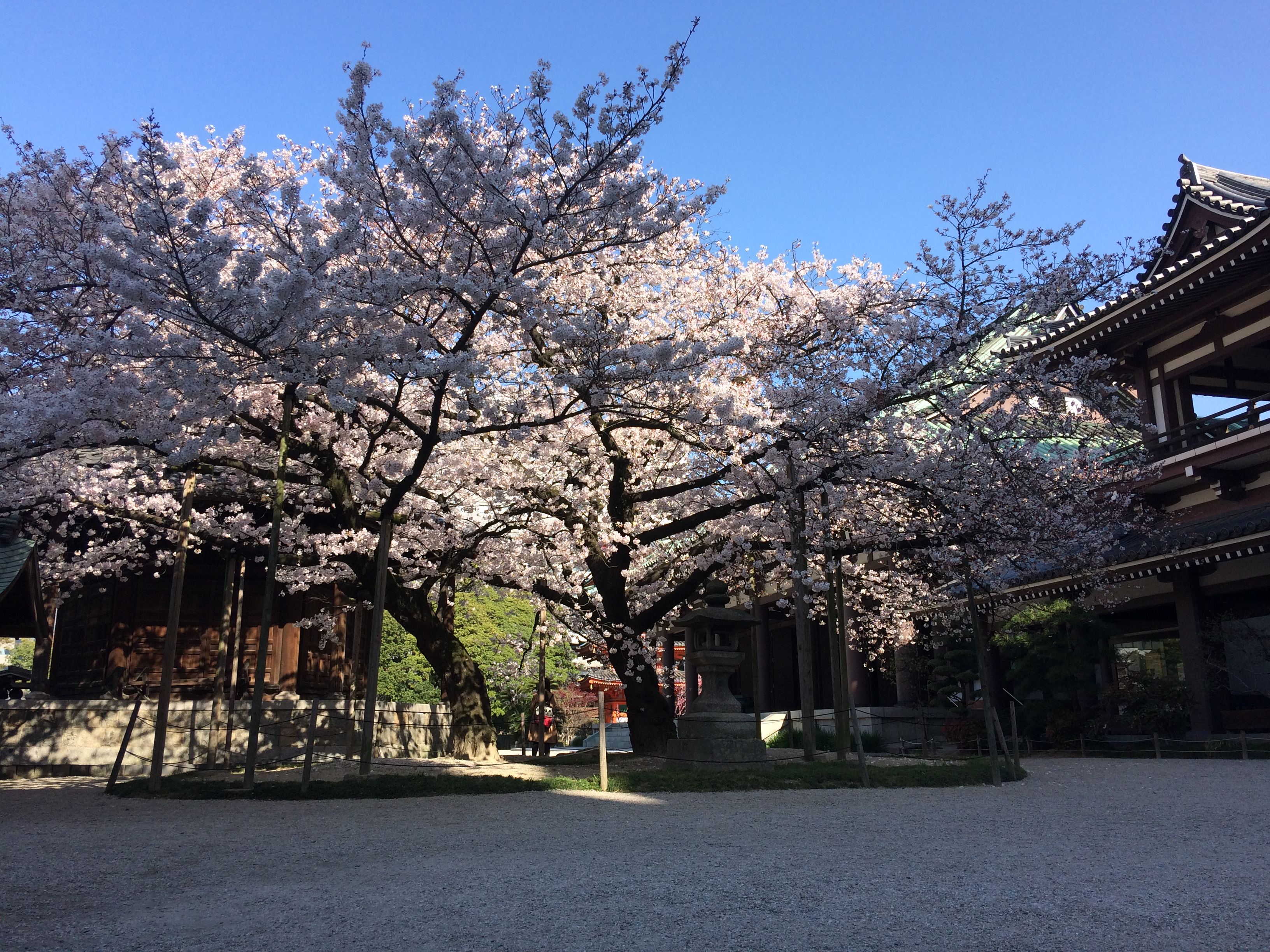 Tōchō-Temple in Hakata (Fukuoka-City)